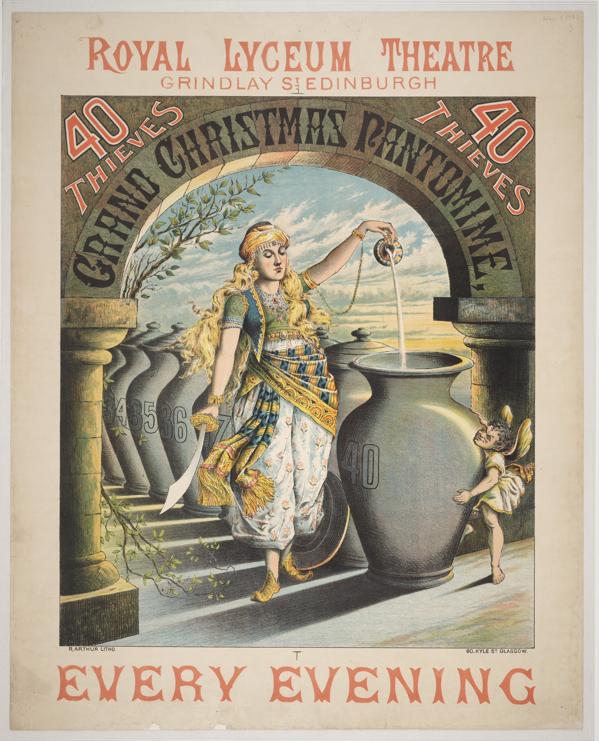 Theatre poster for 40 Thieves, a Grand Christmas Pantomime presented at the Royal Lyceum Theatre, Grindlay Street, Edinburgh. Printed by R. Arthur, Lithographer, 60 Kyle St., Glasgow.